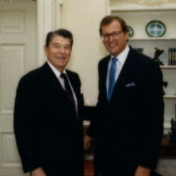 Ronald Reagan and Alexander Watson (diplomat) in Oval Office